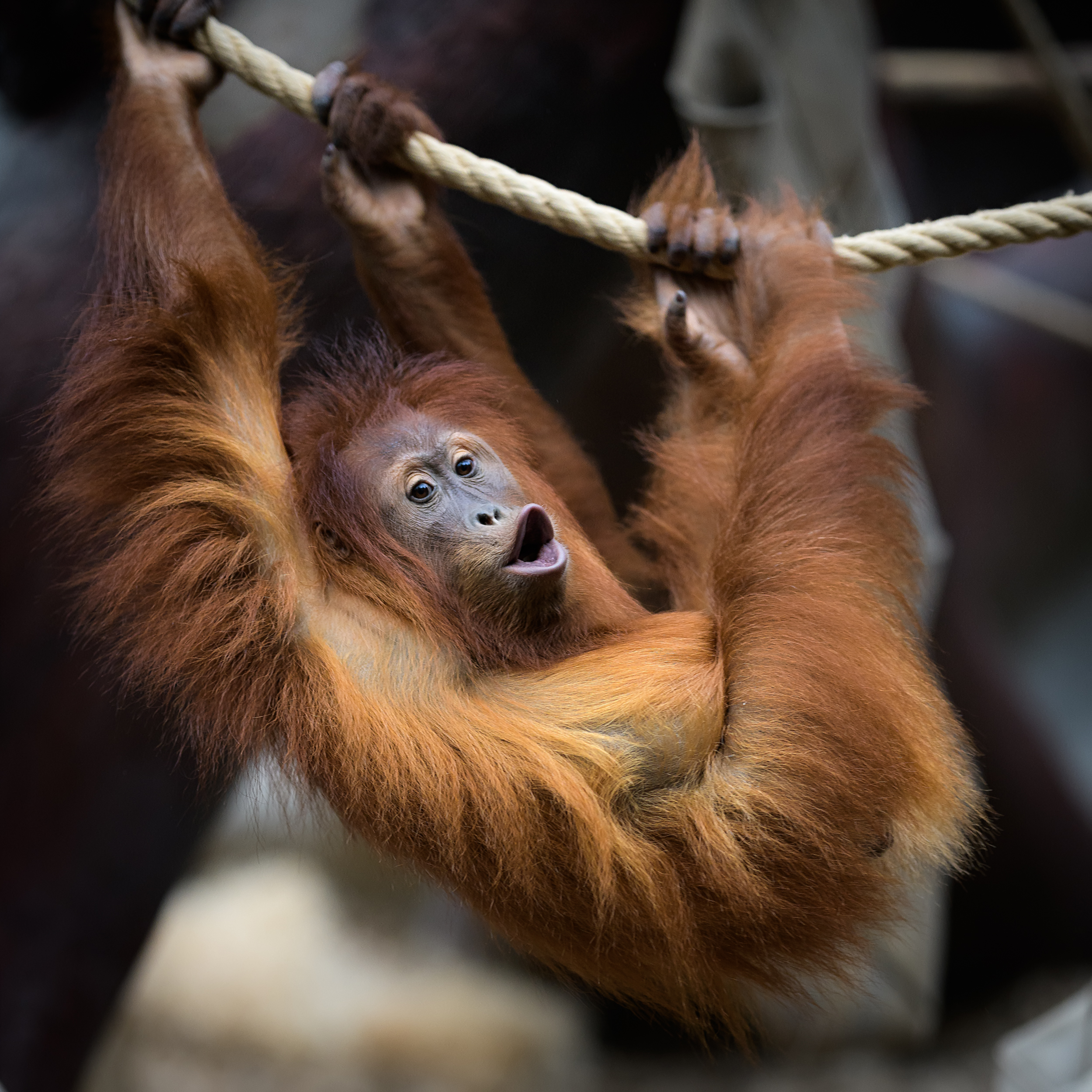 Jung Sumatran orangutan, Prague Zoo